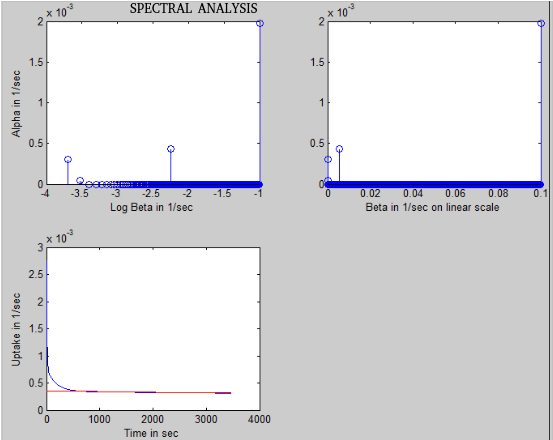 The two image in the top row (the image on the left hand side is plotted on log scale and on the right hand side is plotted on linear scale) show the output of the spectral analysis showing its frequencies components grouped around three clusters, referred to as high, intermediate and low frequencies, supporting the assumption of three compartments in the Hawkins model corresponding to plasma, bone ECF and bone mineral compartment respectively. The image at the bottom row shows the IRF plotted using the frequency components obtained previously. Ki is obtained from the intercept of the linear fit to the slow component of this exponential curve which is considered the plasma clearance to the bone mineral, i.e. were the red line cuts the y axis.